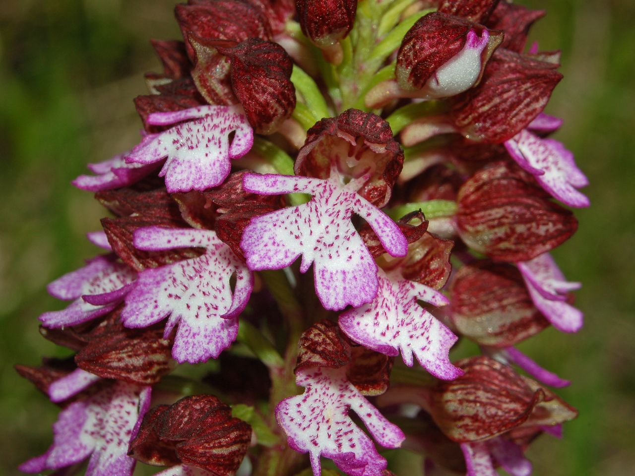 Orchis purpurea - Cerreto Ratti, Alessandria, Italy